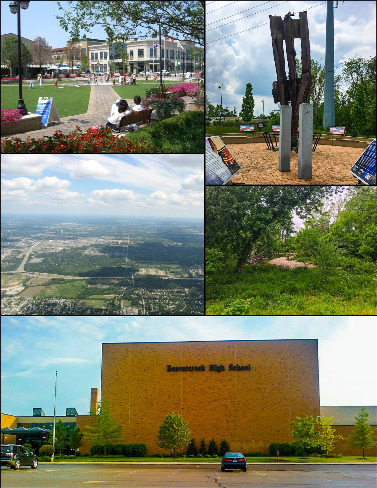 Beavercreek OH montage. From top left: Greene Towne Center, 9/11 memorial, Aerial view of northern Beavercreek, Little Beaver Creek, Beavercreek High School